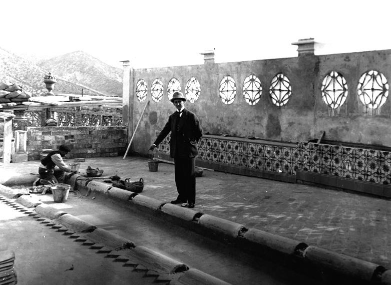 Miquel Utrillo supervising the building of terraces in Palau Maricel, Sitges, c1916.